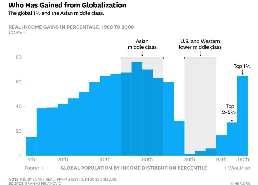 Real Income Gains in the Global Population